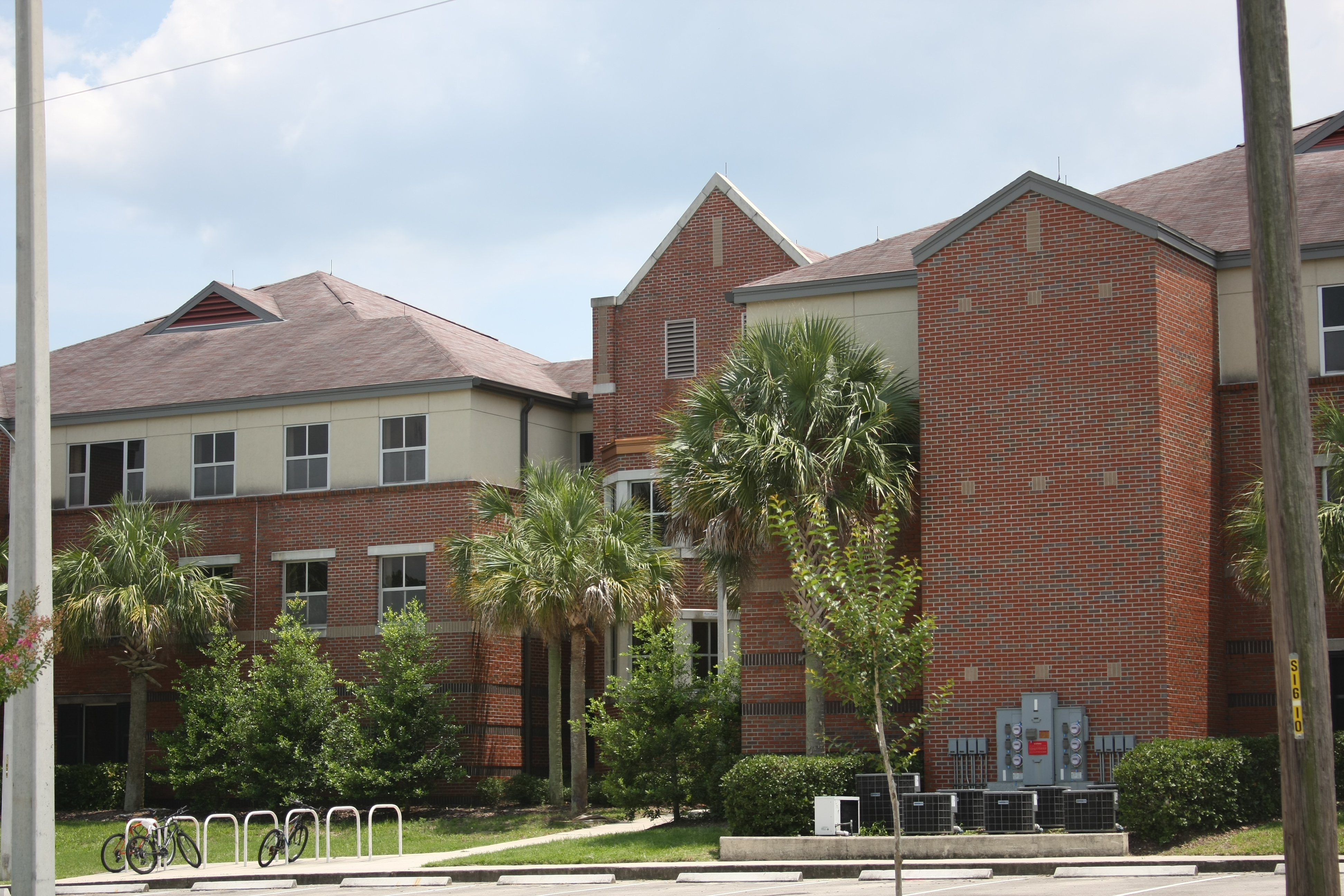 Lakeside Residential Complex, originally Hall 2000, at the University of Florida